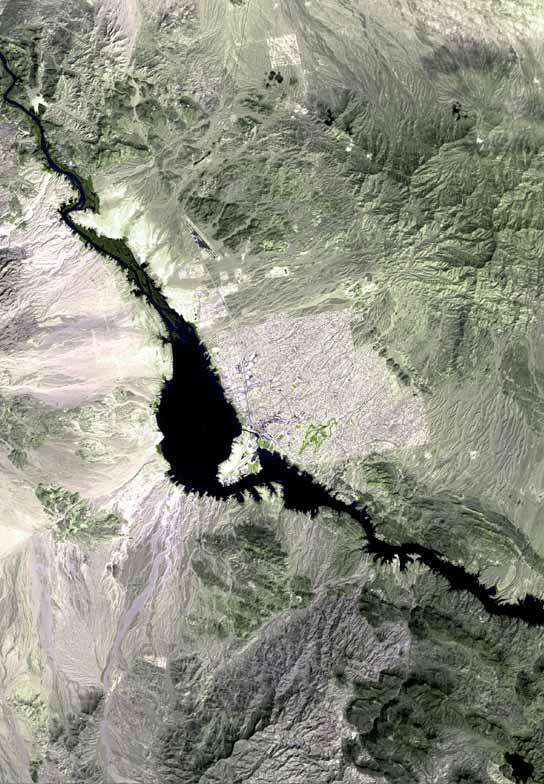 The raw satellite imagery shown in these images was obtained from NASA and/or the US Geological Survey. Post-processing and production by Note: The outfall of the Chemehuevi Wash out of Chemehuevi Valley is on the left bank (west) of Lake Havasu, at the widest section, just south of left-bank center.